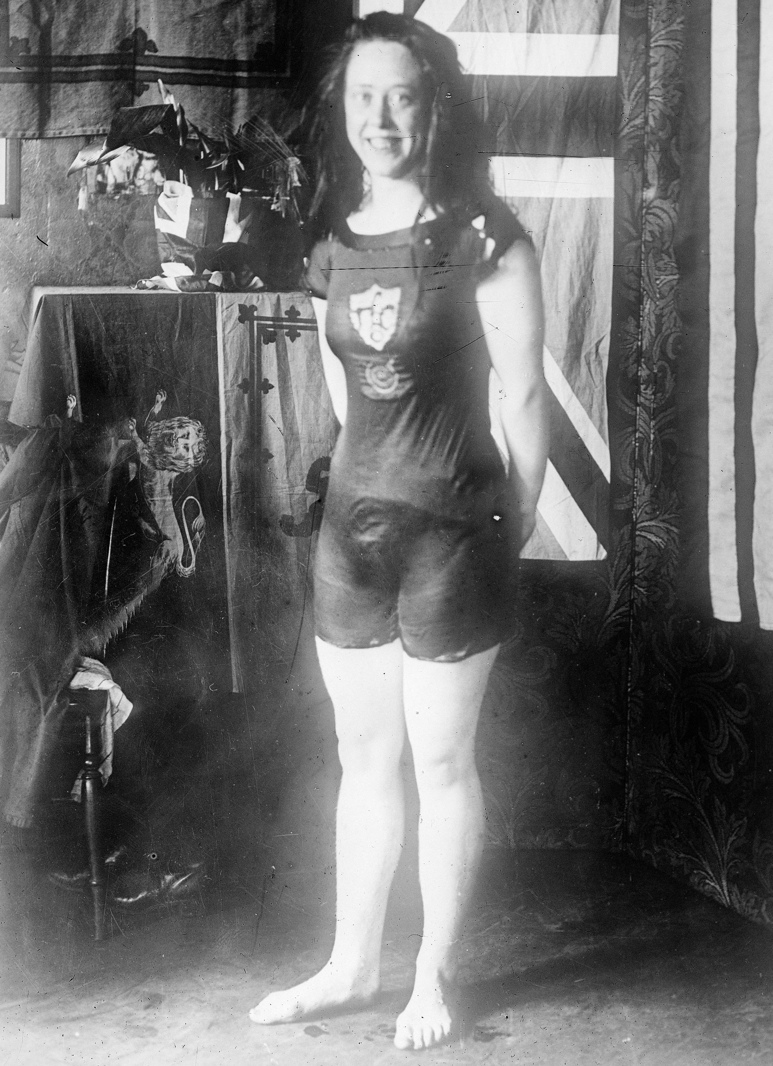 Photograph of Constance Jeans